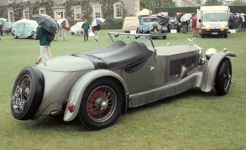 The body of this Invicta is by Carbodies of coventry and is an adaptation of the type used on the MG M-Type Midget and Hillman minx sports(DVLA) first registered 28 March 1931, 4424cc